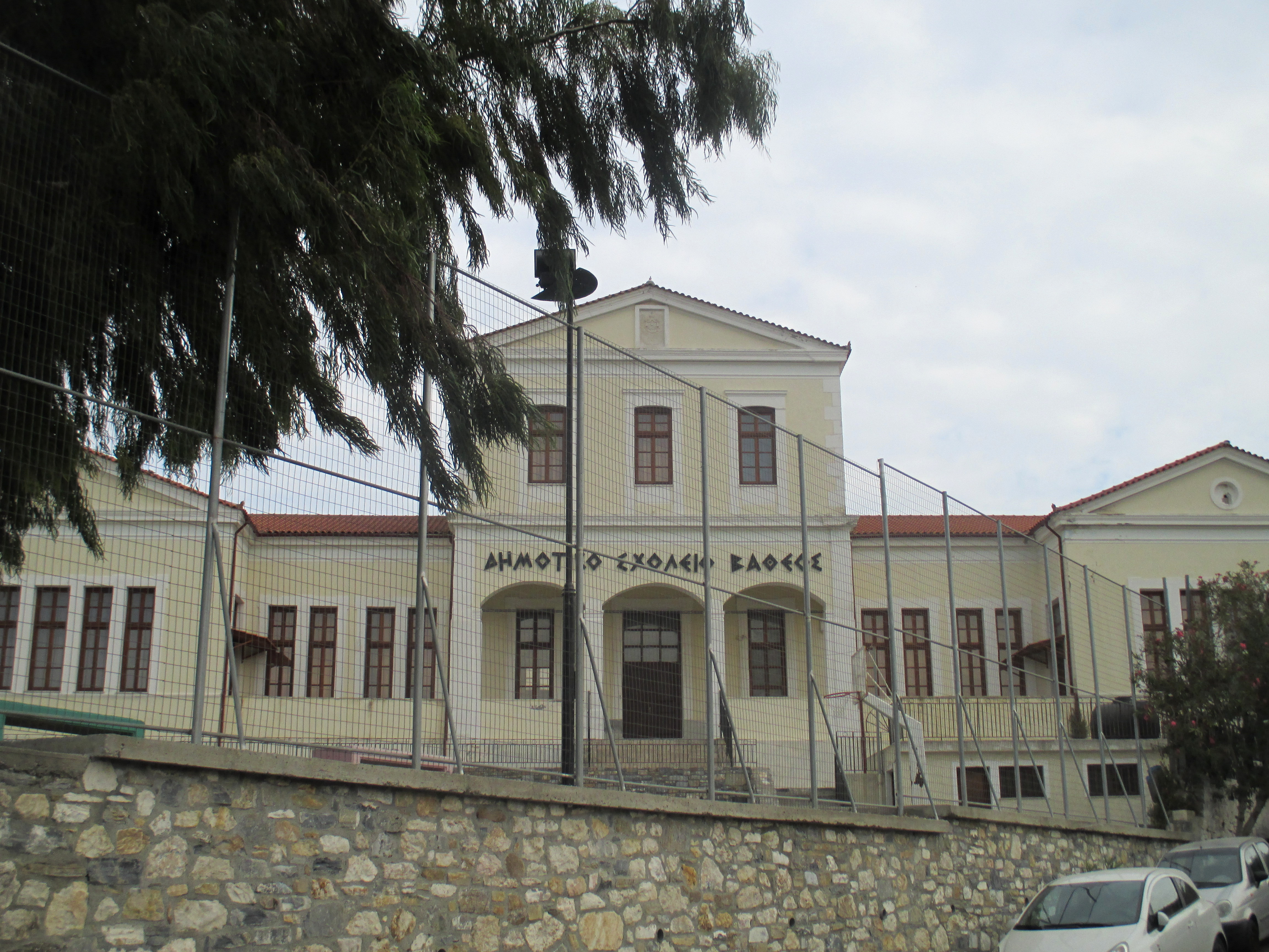 Old school building. Vathy (Ano Vathy), Samos, Greece.